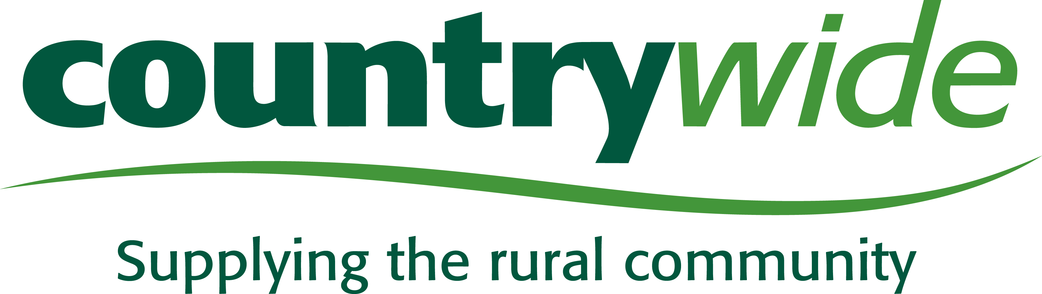 Countrywide - Supplying the Rural Community